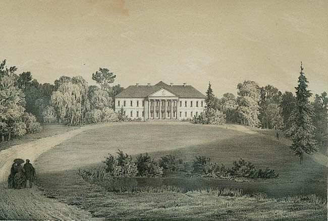 "Pałac Steckich w Międzyrzeczu Koreckim" (Stecki's palace in Międzyrzecz Korecki), a sketch by Napoleon Orda, 1875, pencil